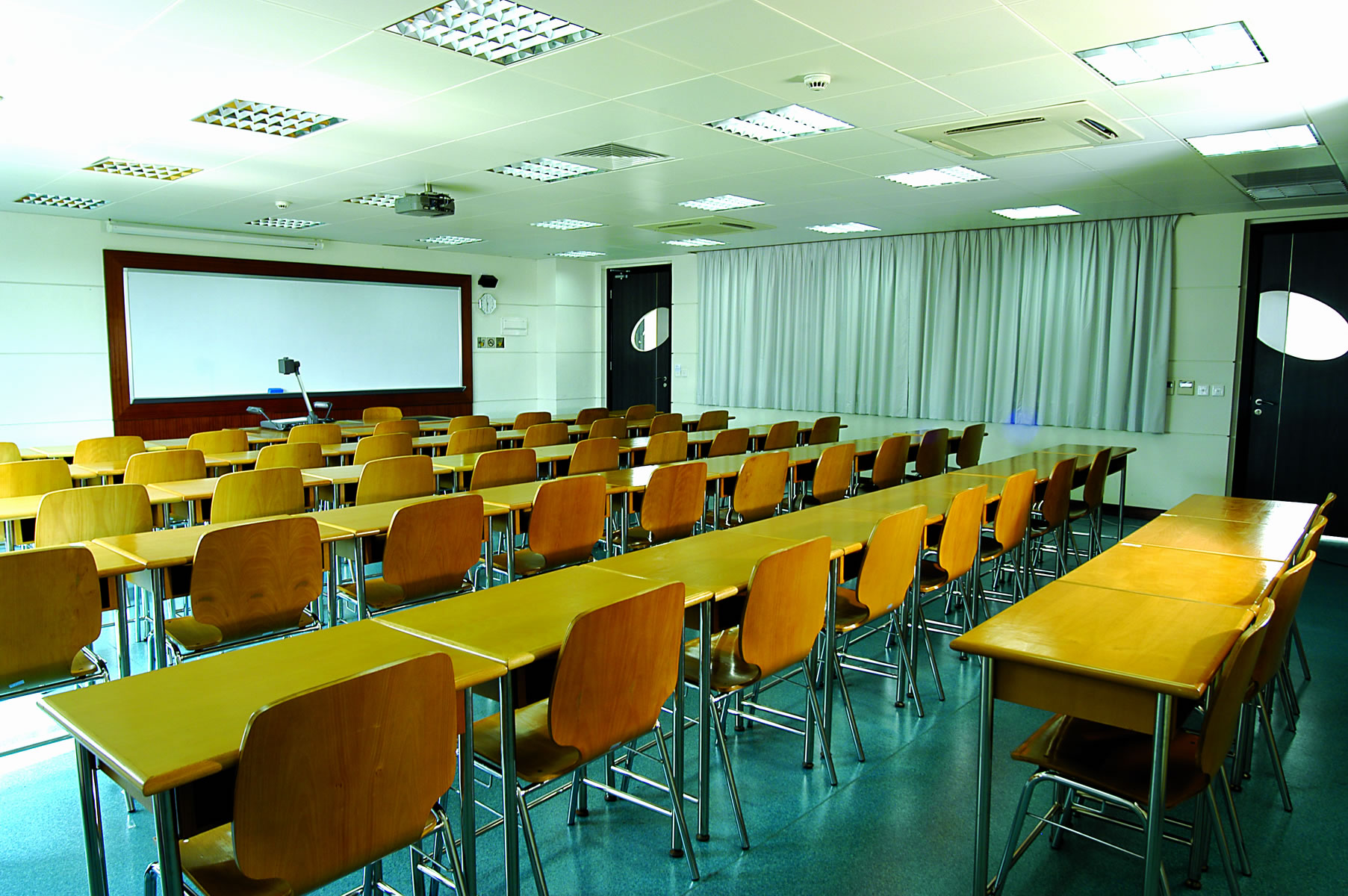 Classroom in Inspiration Building, Instituto de Formação Turística